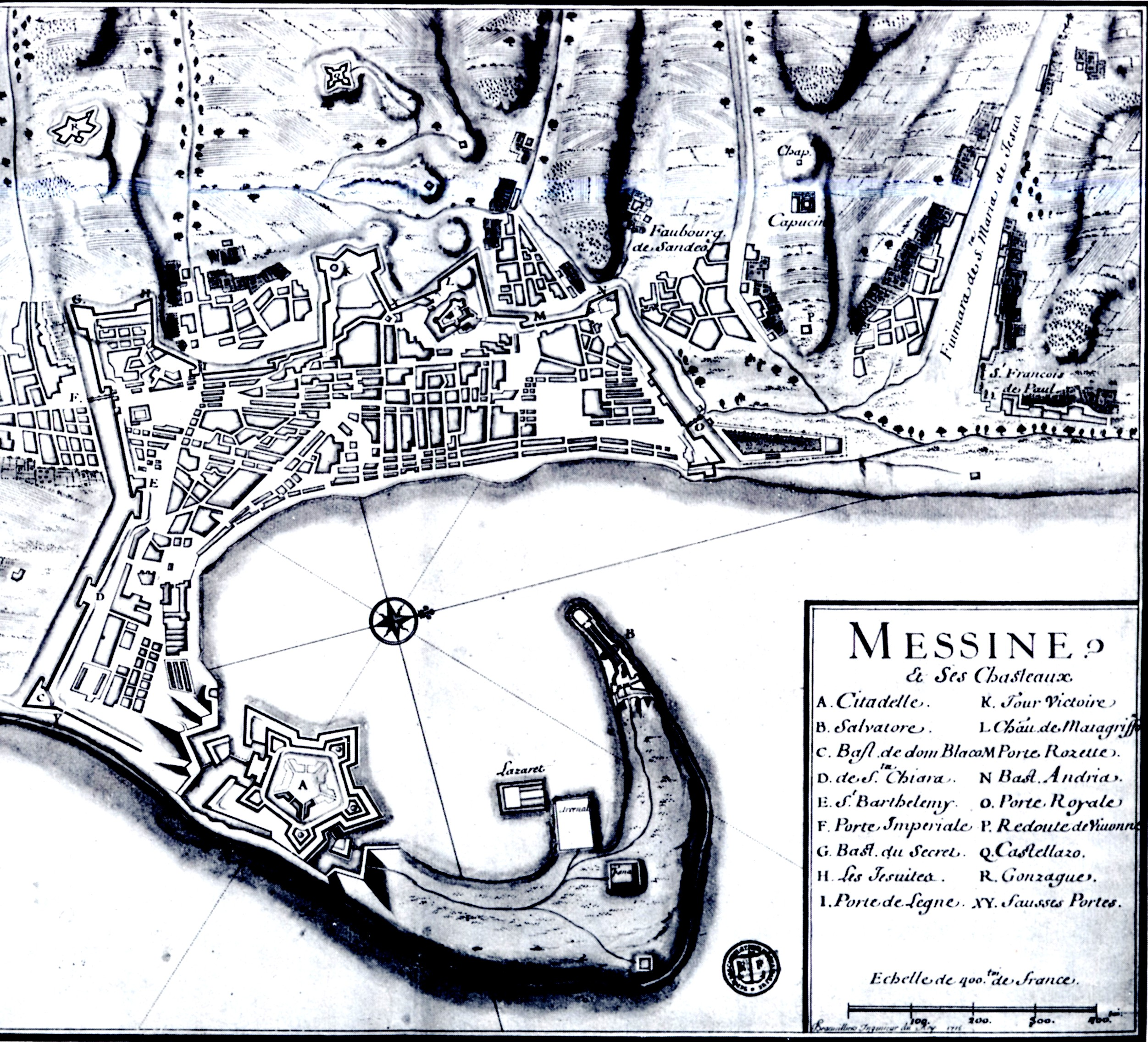 Messina in 18th century. Etching by Filippo Juvarra.